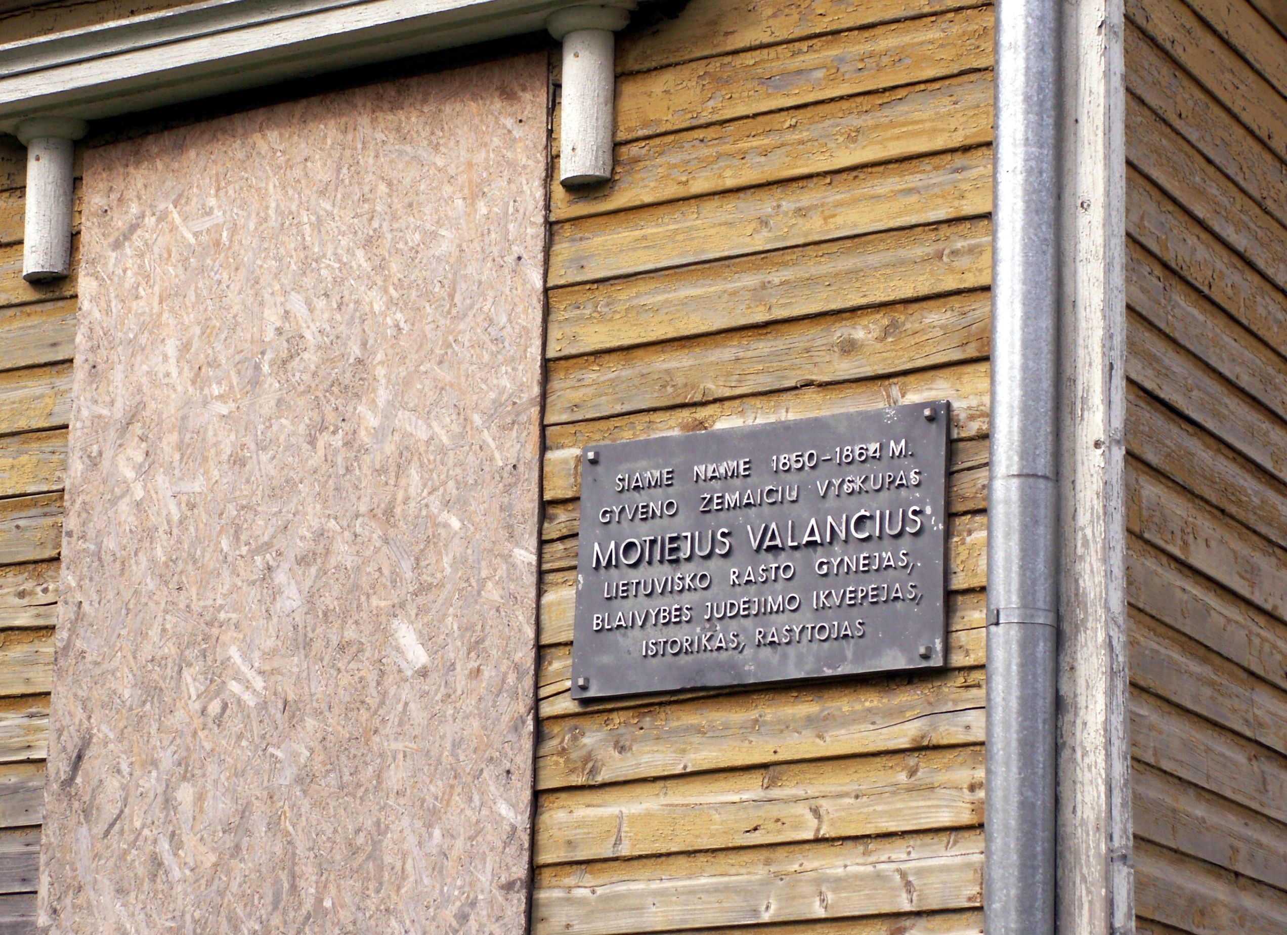 Varniai, Lithuania, Motiejus Valančius